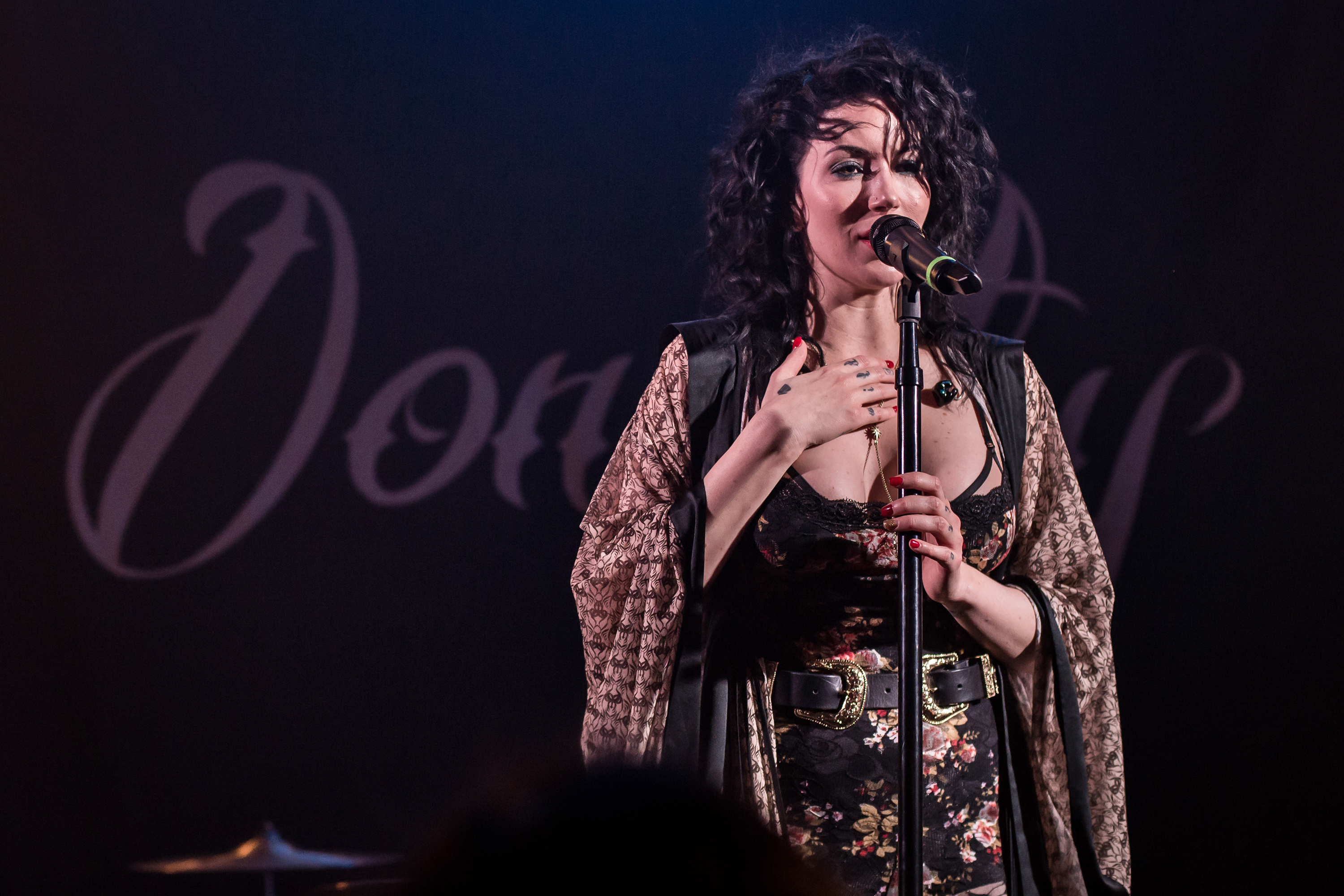 Vocalist Dorothy Martin of the band Dorothy performing in LA.